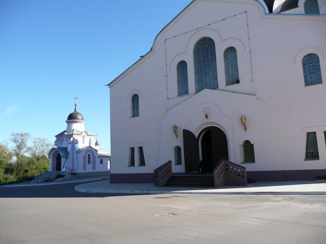 Chapel of the Royal Martyrs in the shadow of the Resurrection Cathedral in Tver